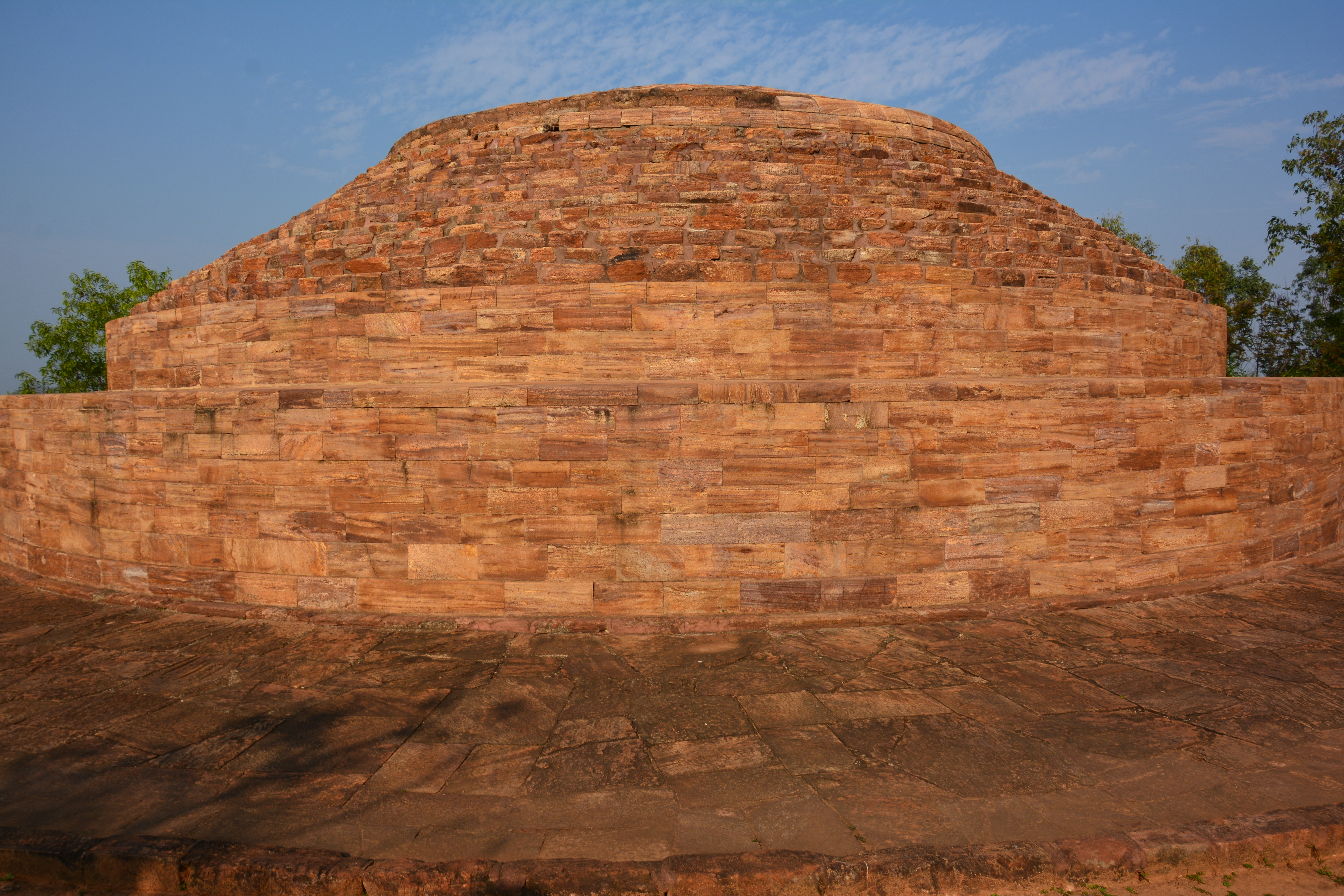 The hilltop Mahastupa at Lalitgiri is 15.5 meters in diameter, and is constructed in Sanchi stupha style.